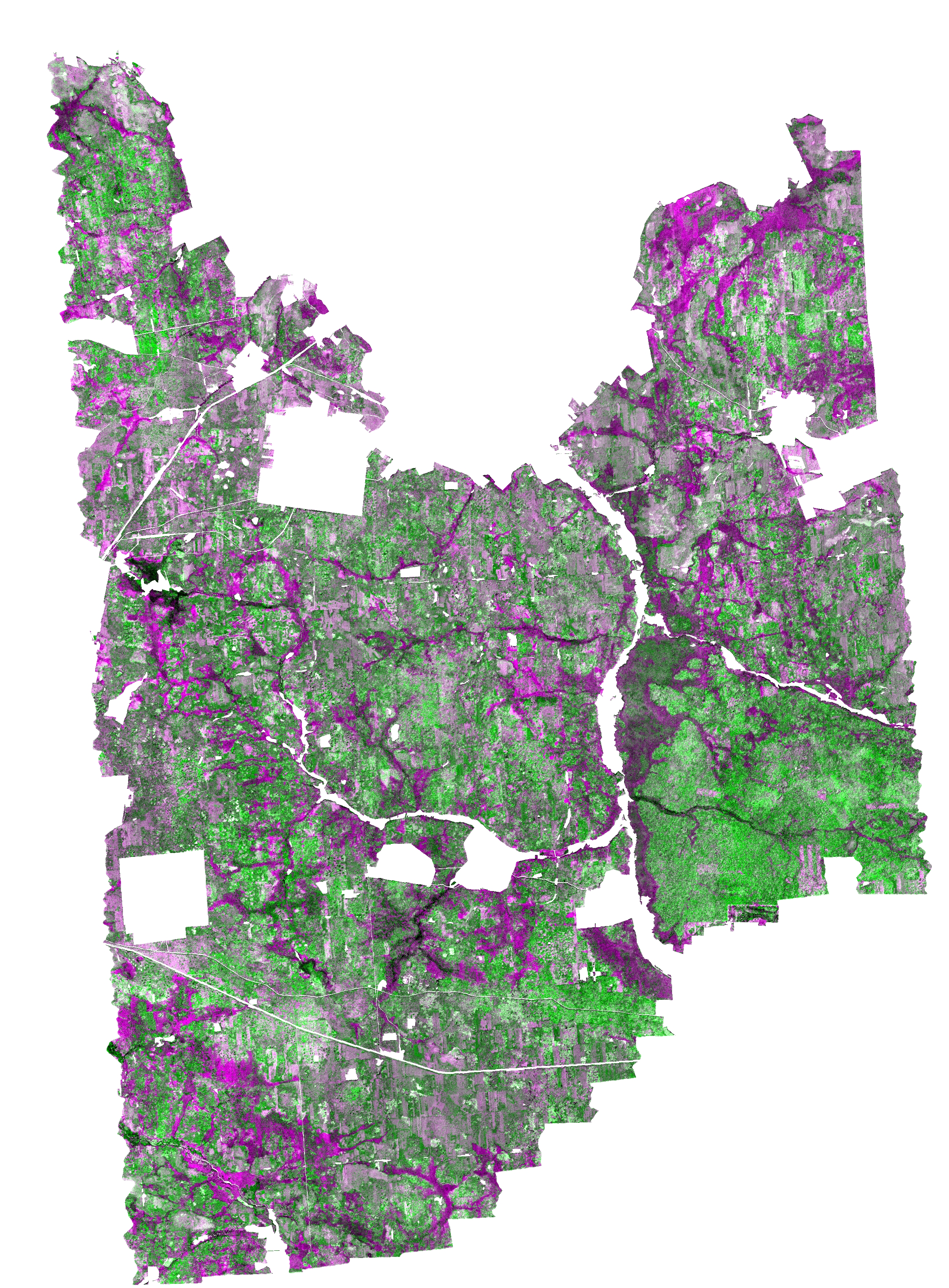 River valleys in a section of the Polish part of Białowieża Forest.